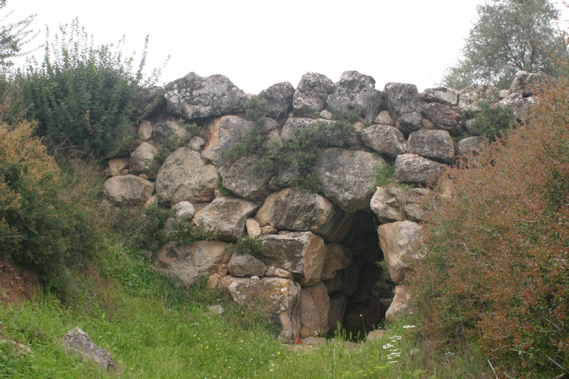 The Mycenaean Arkadiko Bridge or Bridge at Kazarma, Argolis, Peloponnes, Greece. The corbel arch bridge was part of a Mycenaean highway from Tiryns to Epidauros, which was constructed for use by chariots. The bridge was built in the late Greek Bronze Age (Late Helladic period LHIII, ca. 1300-1190 BC) and is still used by the local populace.